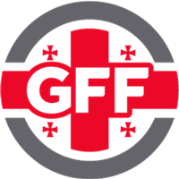 Logo of the Georgian Football Federation